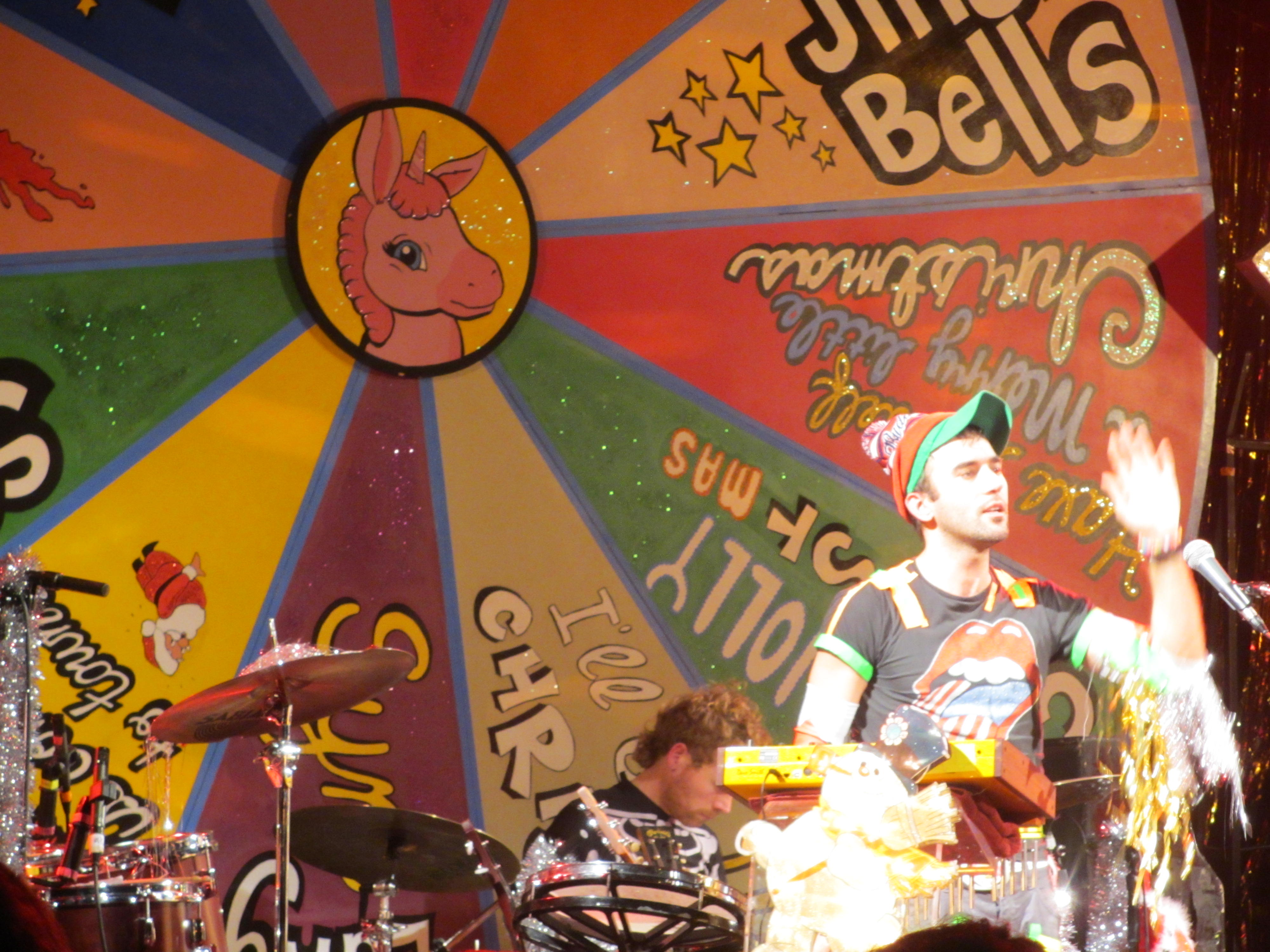 Sufjan Stevens performing at Chicago's Metro, 2012-12-15